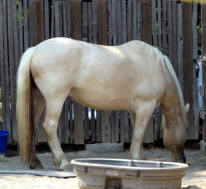 American Cream Draft Horse. San Francisco Zoo